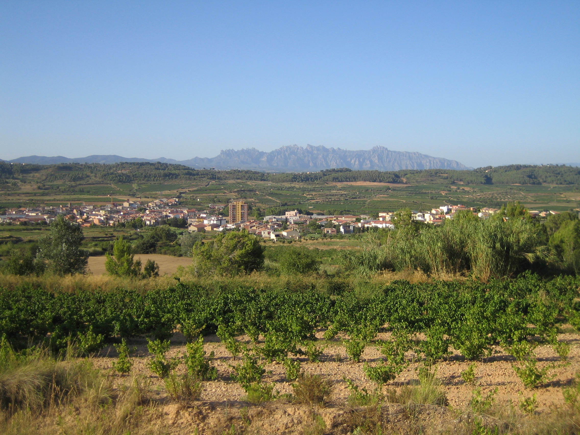 Panoramic photo of Sant Pere de Riudebitlles, village from Alt Penedès catalan county, whith mountain of Montserrat in the background.